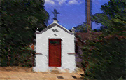 Will Canova